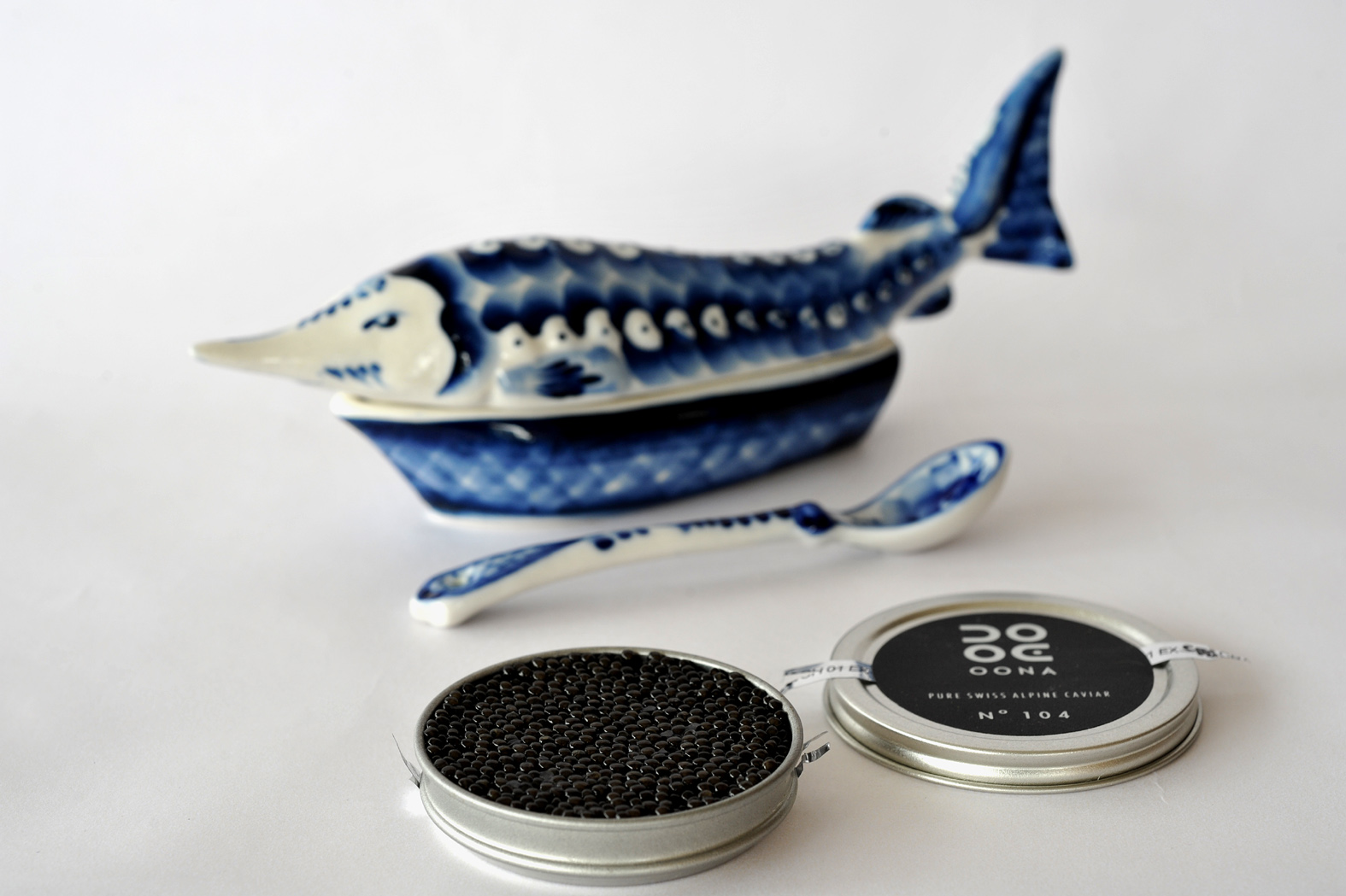 Oona caviar, followed by a traditional porcelain container in sturgeon shape with the non-metallic spoon. Swiss caviar from the Tropenhaus Frutigen.